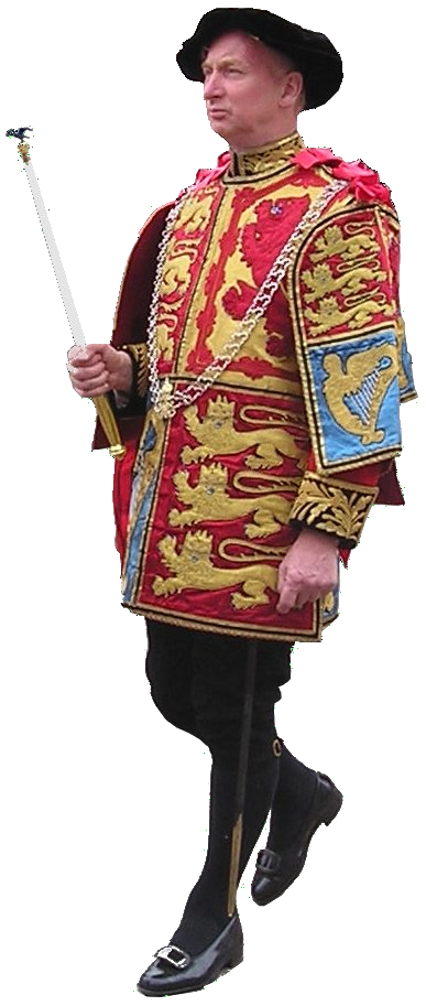 Heralds in procession to St George's Chapel, Windsor Castle for the annual service of the Order of the Garter. (l-r) Wales Herald of Arms Extraordinary (Michael Siddons), Somerset Herald of Arms in Ordinary (David White), Maltravers Herald of Arms Extraordinary (John Robinson), York Herald of Arms in Ordinary (Henry Paston-Bedingfield), Windsor Herald of Arms in Ordinary (William Hunt).